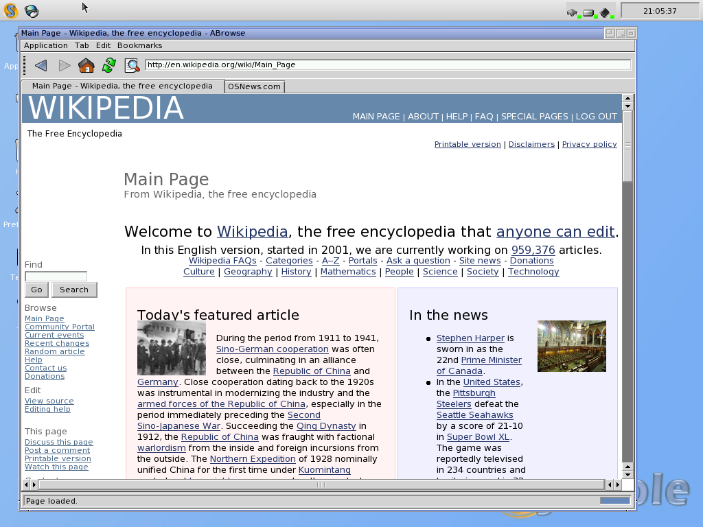 Abrowse, 0.4 Alpha 2, running under Syllable 0.6.0a